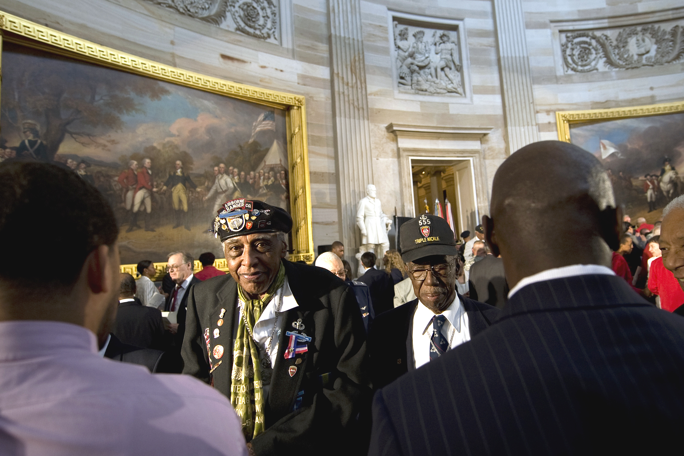 World War II veterans talk with younger men at the conclusion of the ceremony for the 60th anniversary of the integration of the armed forces in Washington, D.C., July 23, 2008. U.S. Army photo by D. Myles Cullen